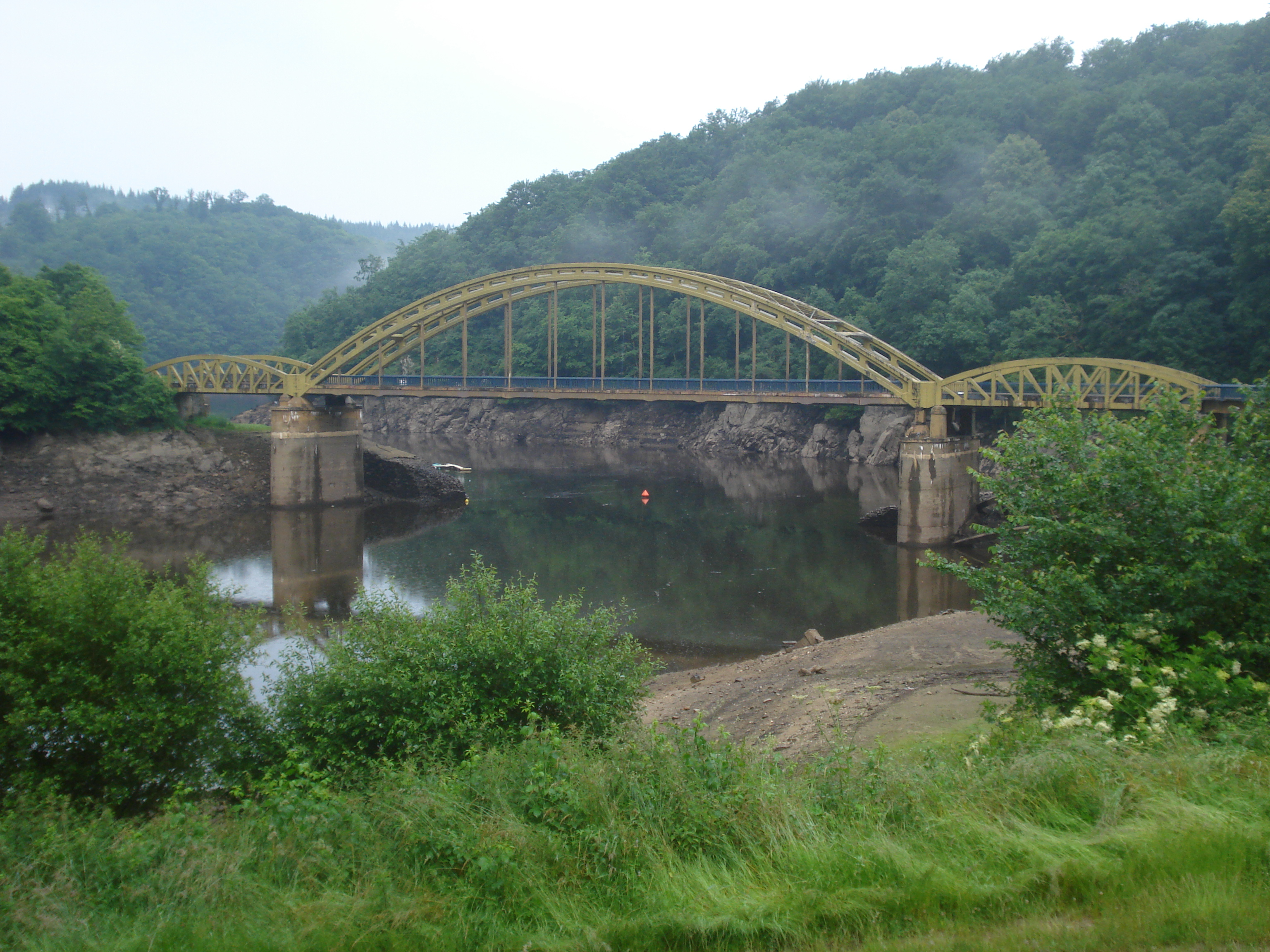 Saint-Laurent-les-Églises (Haute-Vienne, Fr), Pont du Dognon